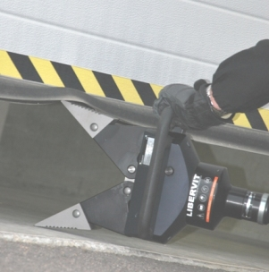 hydraulic spreader for breaching